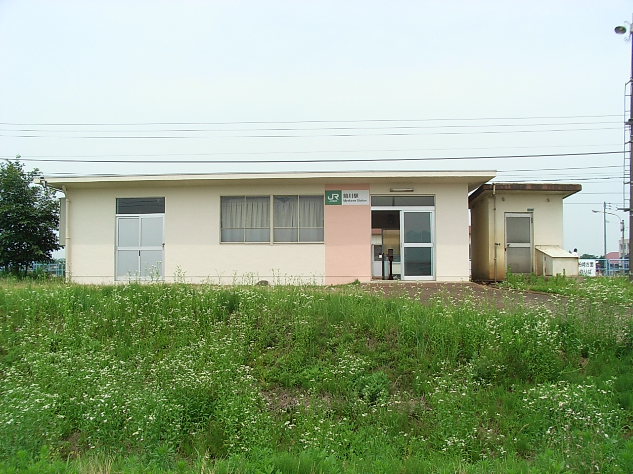 Maekawa Station on JR Shin-etsu Line. (Kamimaejimamachi,Nagaoka-shi,Niigata-ken,JAPAN)